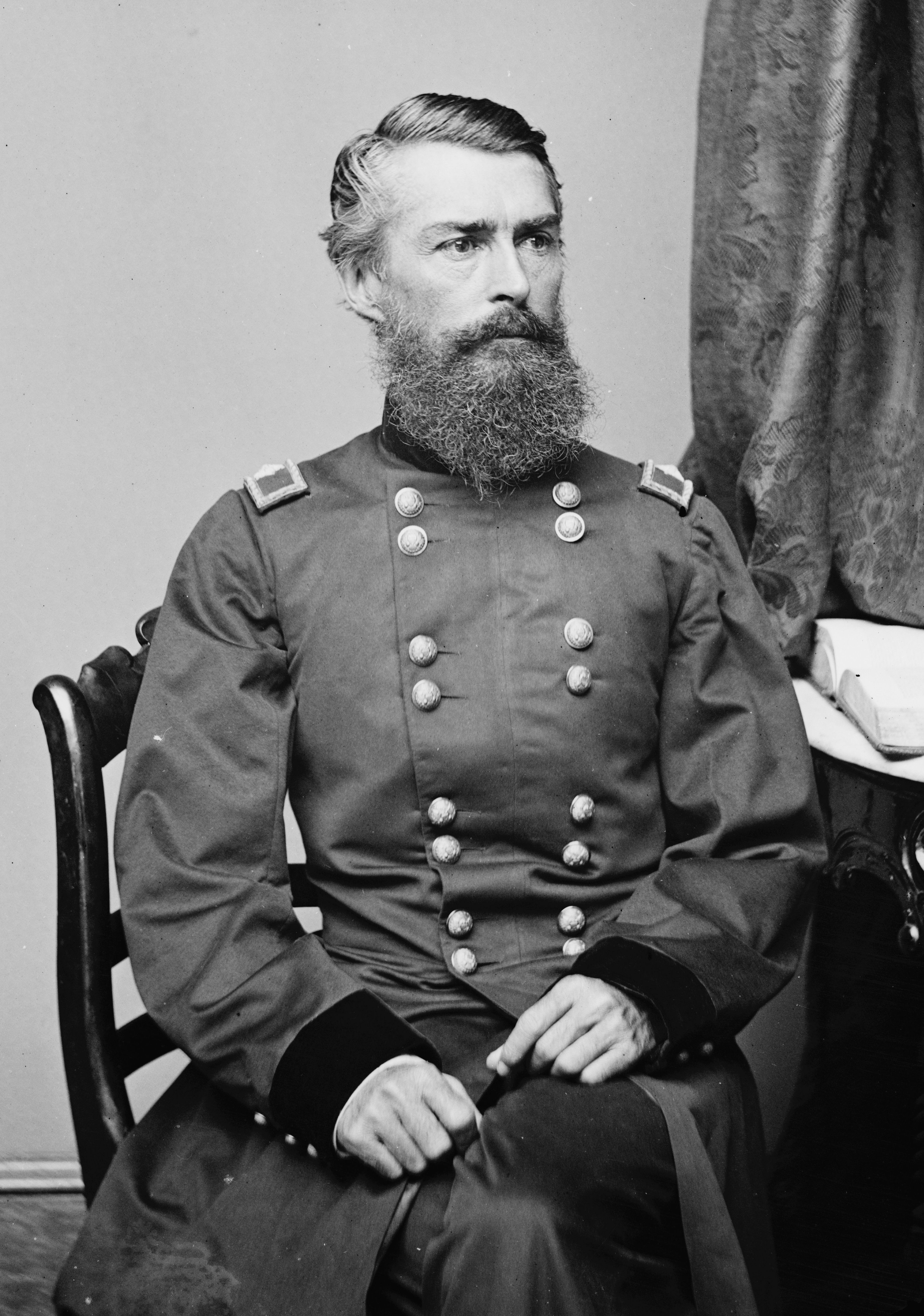 Portrait of Brig. Gen. Herman Haupt, between 1860 and 1865